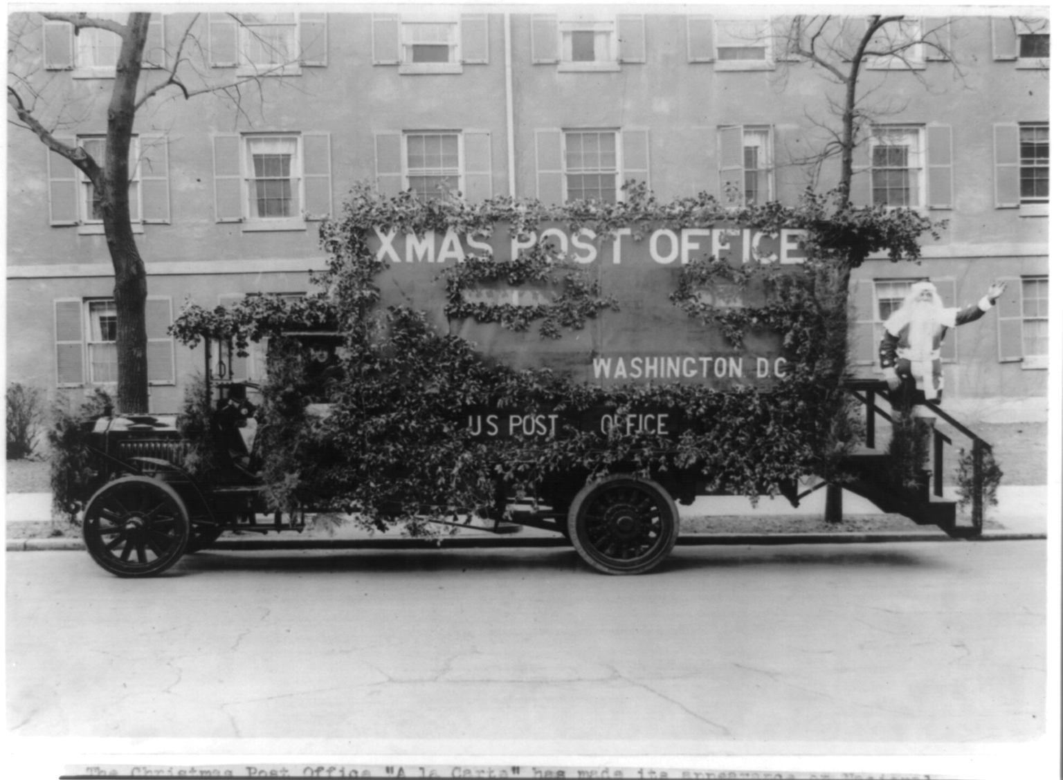 Truck decorated in an appeal for early mailing for the Christmas season, with man dressed as Santa Claus on back of truck. Washington, D.C., 1921. Original caption: "The Christmas post office "A la carte" has made its appearance on national capitol streets"